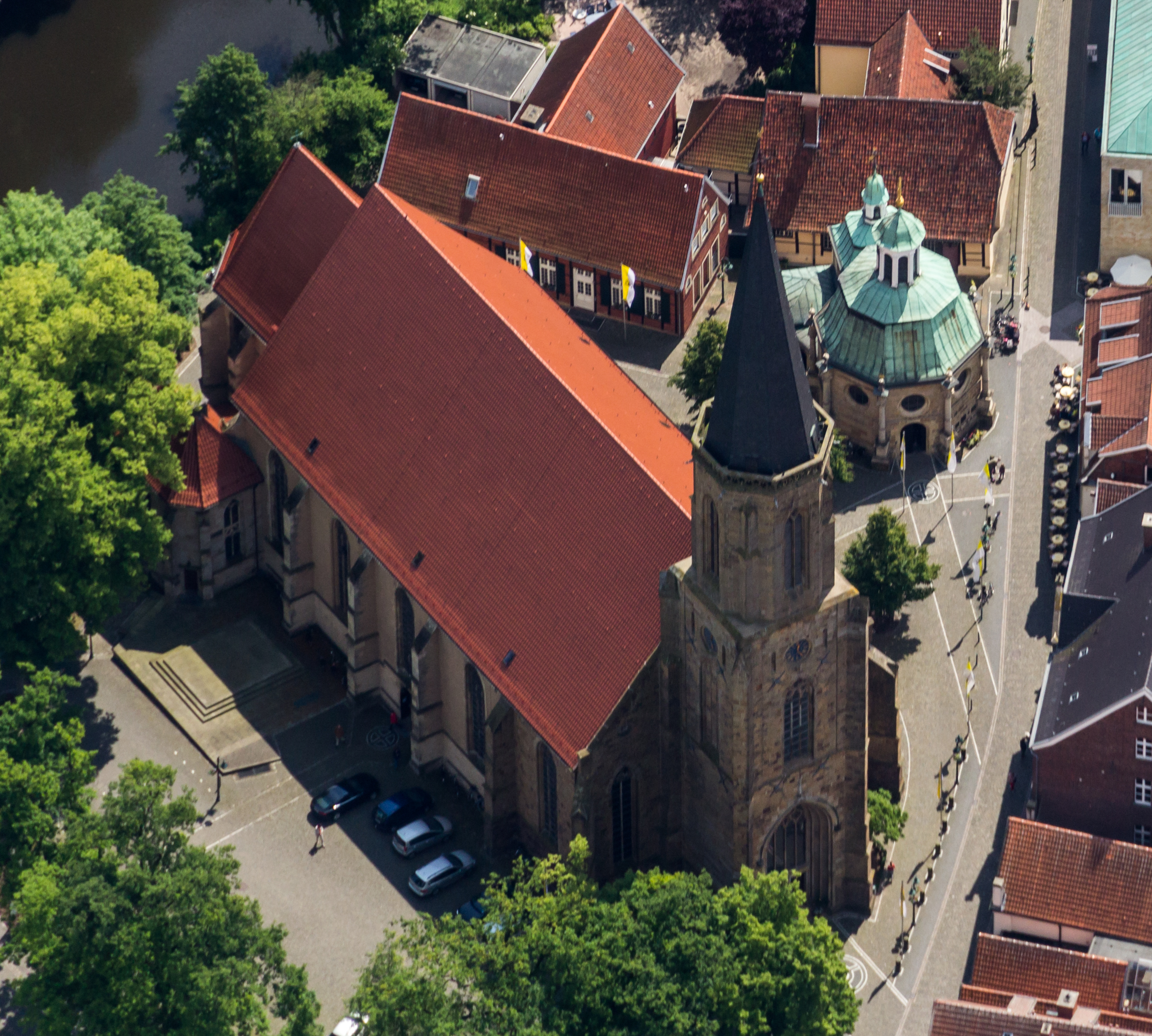 Clemenskirche and Gnadenkapelle, Telgte, North Rhine-Westphalia, Germany This image shows a heritage building in Germany, located in the North Rhine-Westphalian city Telgte (no. I/2). This image shows a heritage building in Germany, located in the North Rhine-Westphalian city Telgte (no. I/1).